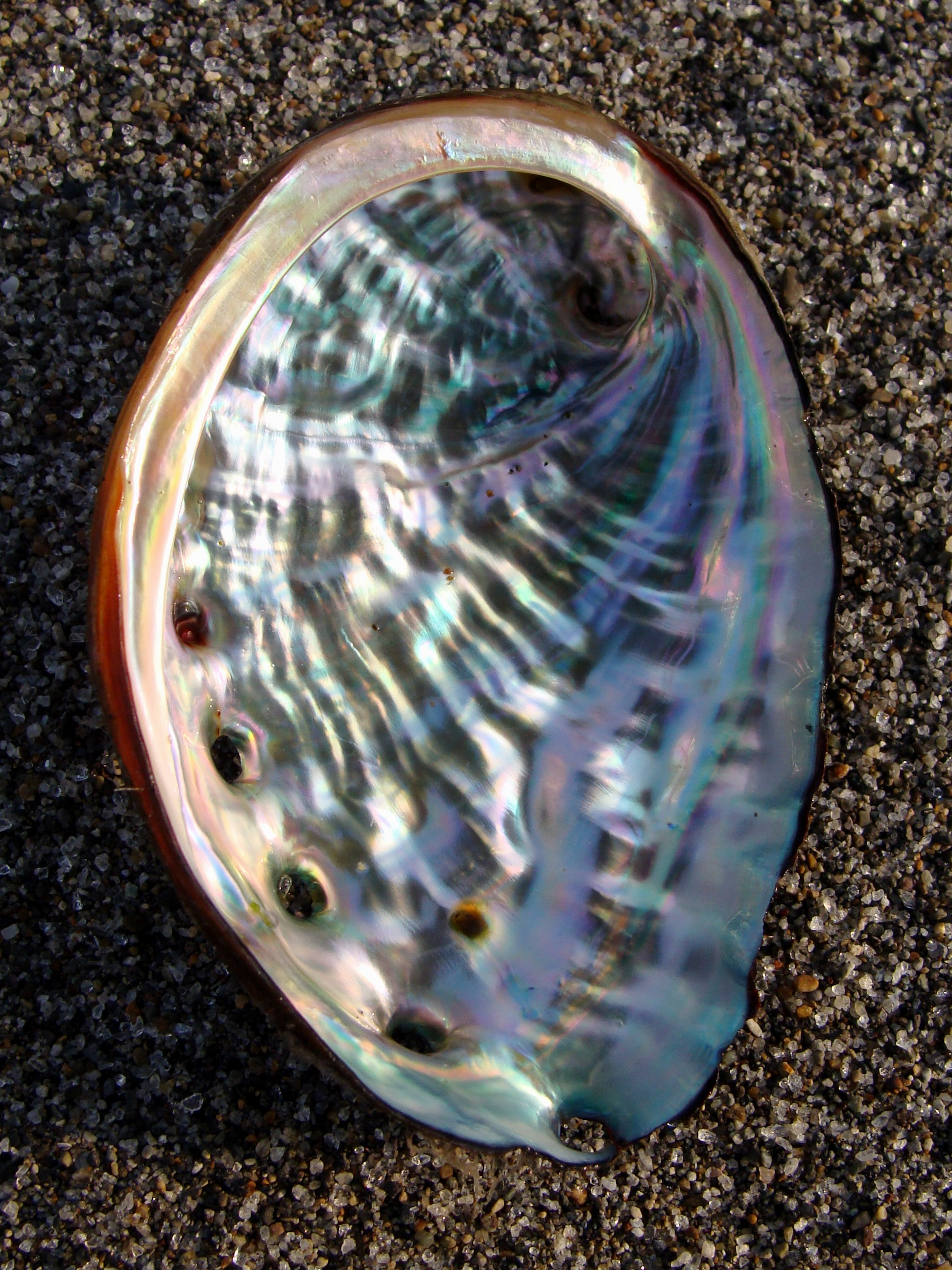 Shell of Haliotis